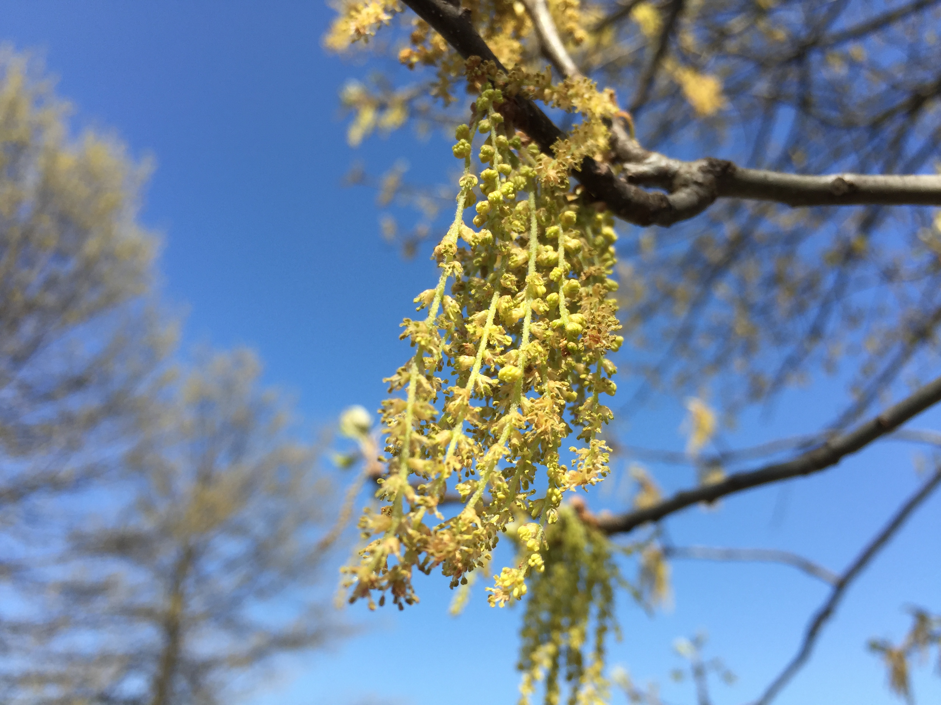 Pin Oak catkins at Franklin Farm Park in the Franklin Farm section of Oak Hill, Fairfax County, Virginia